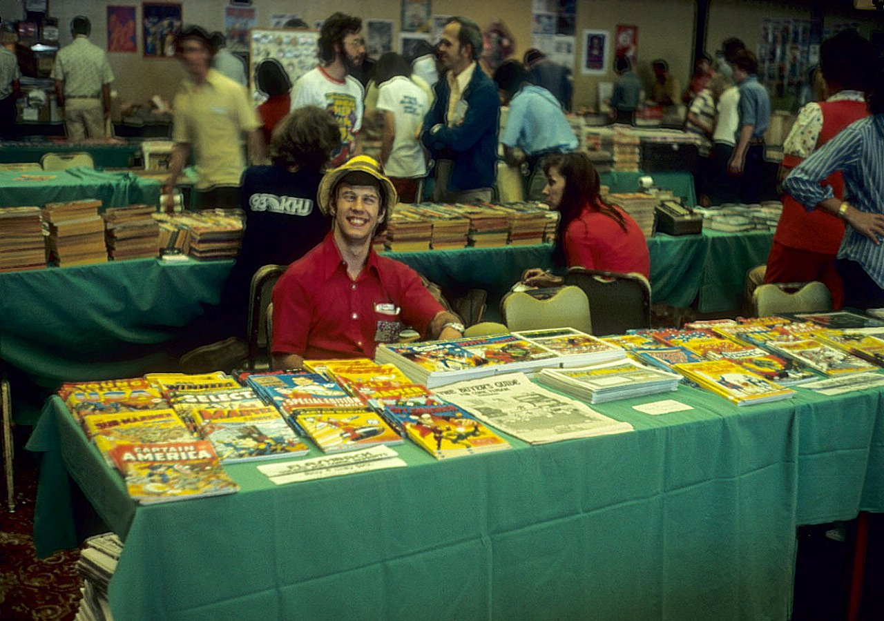 Murray Bishoff at the DynaPubs table at the 1976 San Diego Comic book convention, now known as ComiCon International